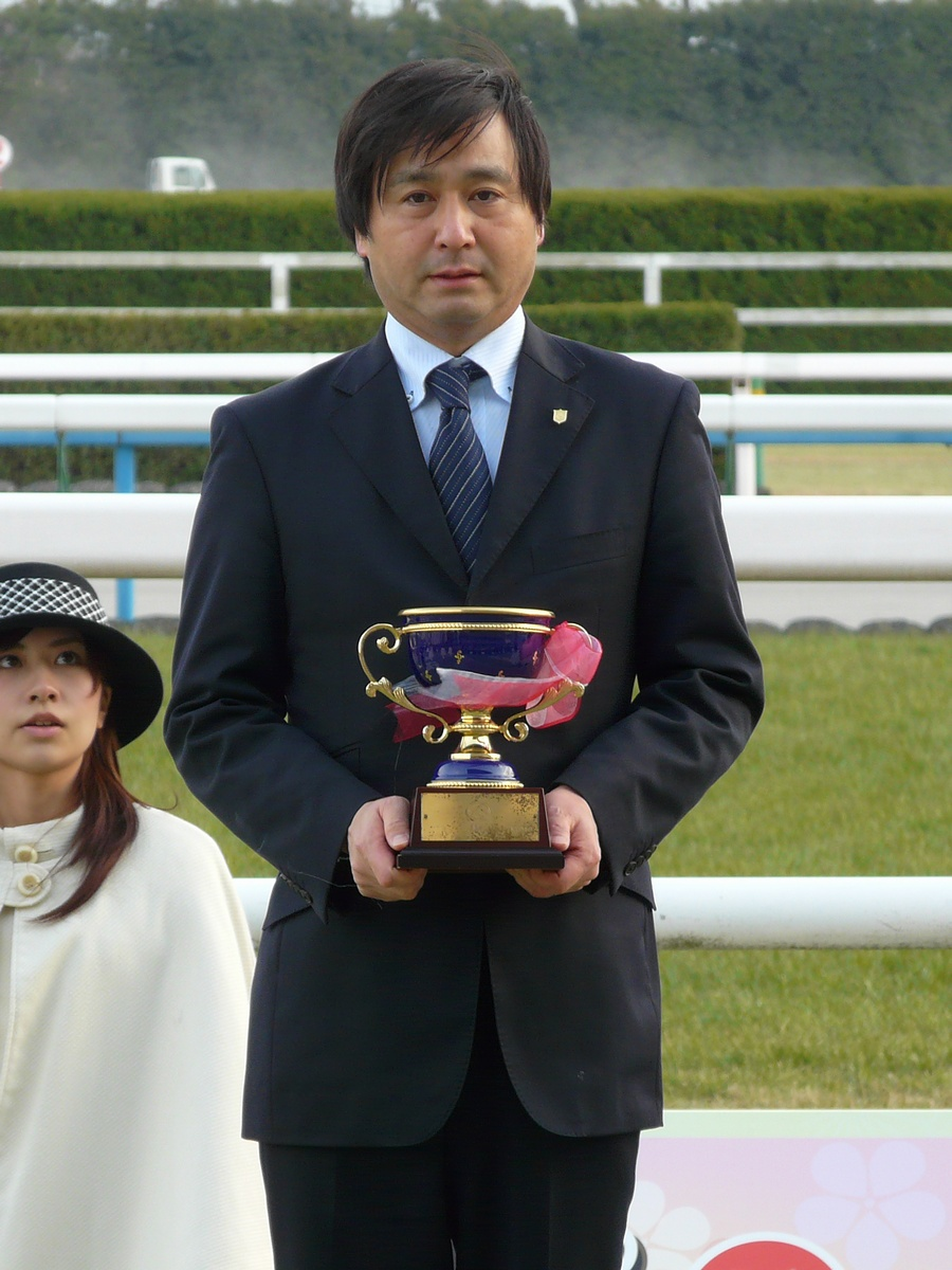 Yasutoshi-Ikee20110115